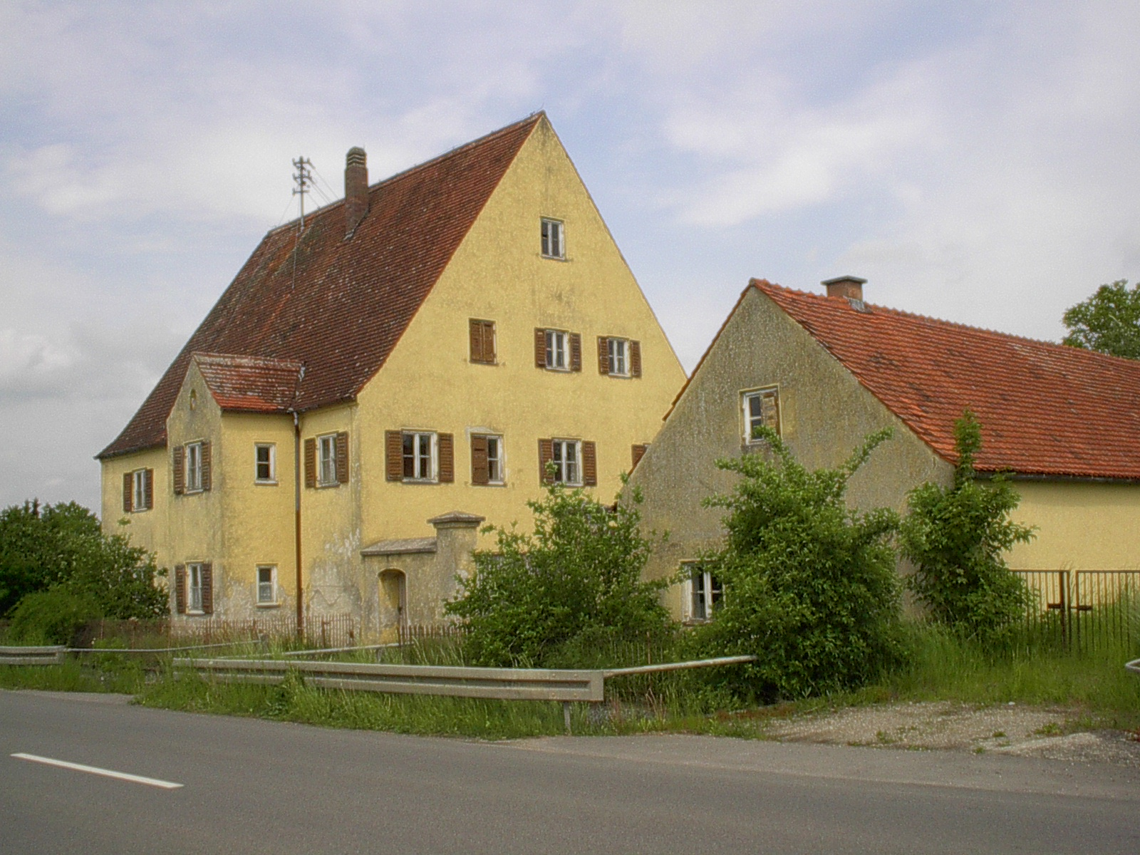 Der Pfarrhof von Zell steht unter Denkmalschutz.